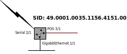 A representation of an IS-IS router with its SID (System ID)